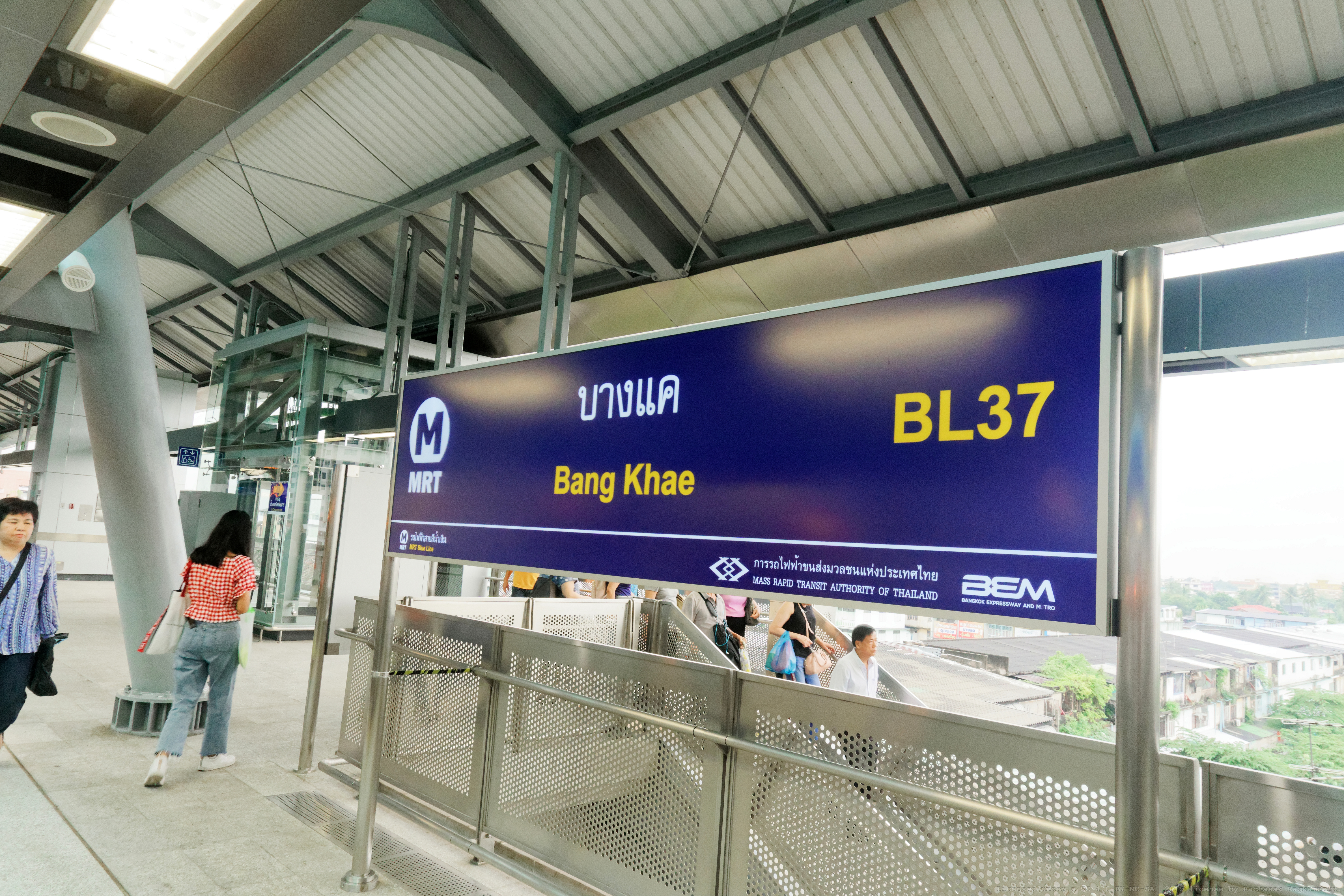 MRT Bangkae station: traditional station sign